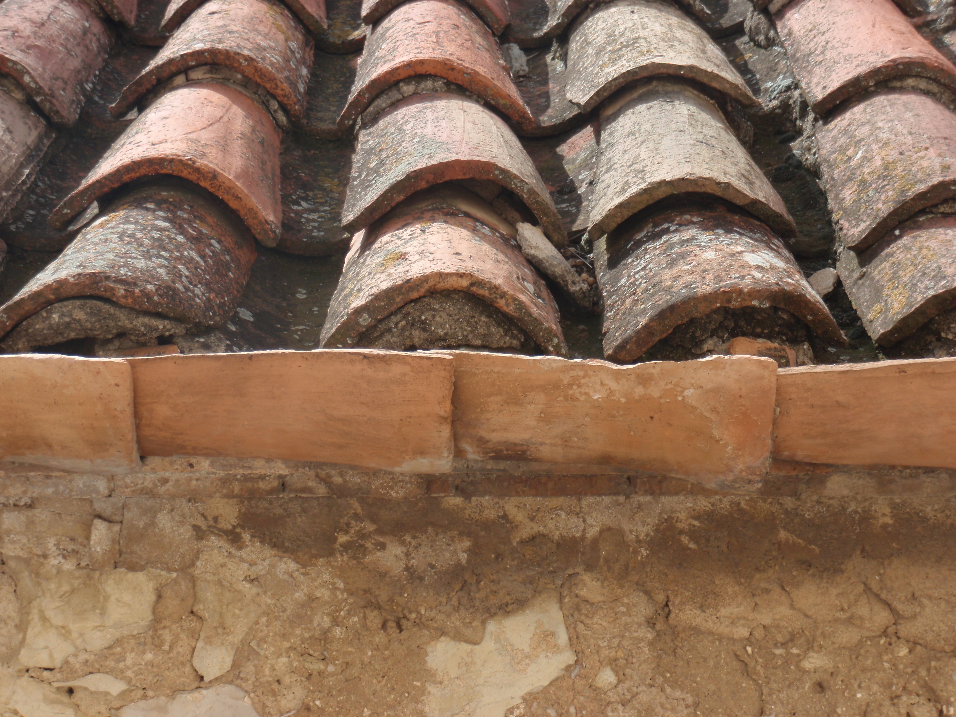 [en] The "tortugues" (turtles) are tilted more curved than ordinary tiles with the T-shaped plant, which allows them to be placed at the end of a row of shingles and form the channel at the foot of the slope. The "turtles" channel is called "Tortugada". Photograph taken in Mas de Barberans, Montsià, Catalonia.